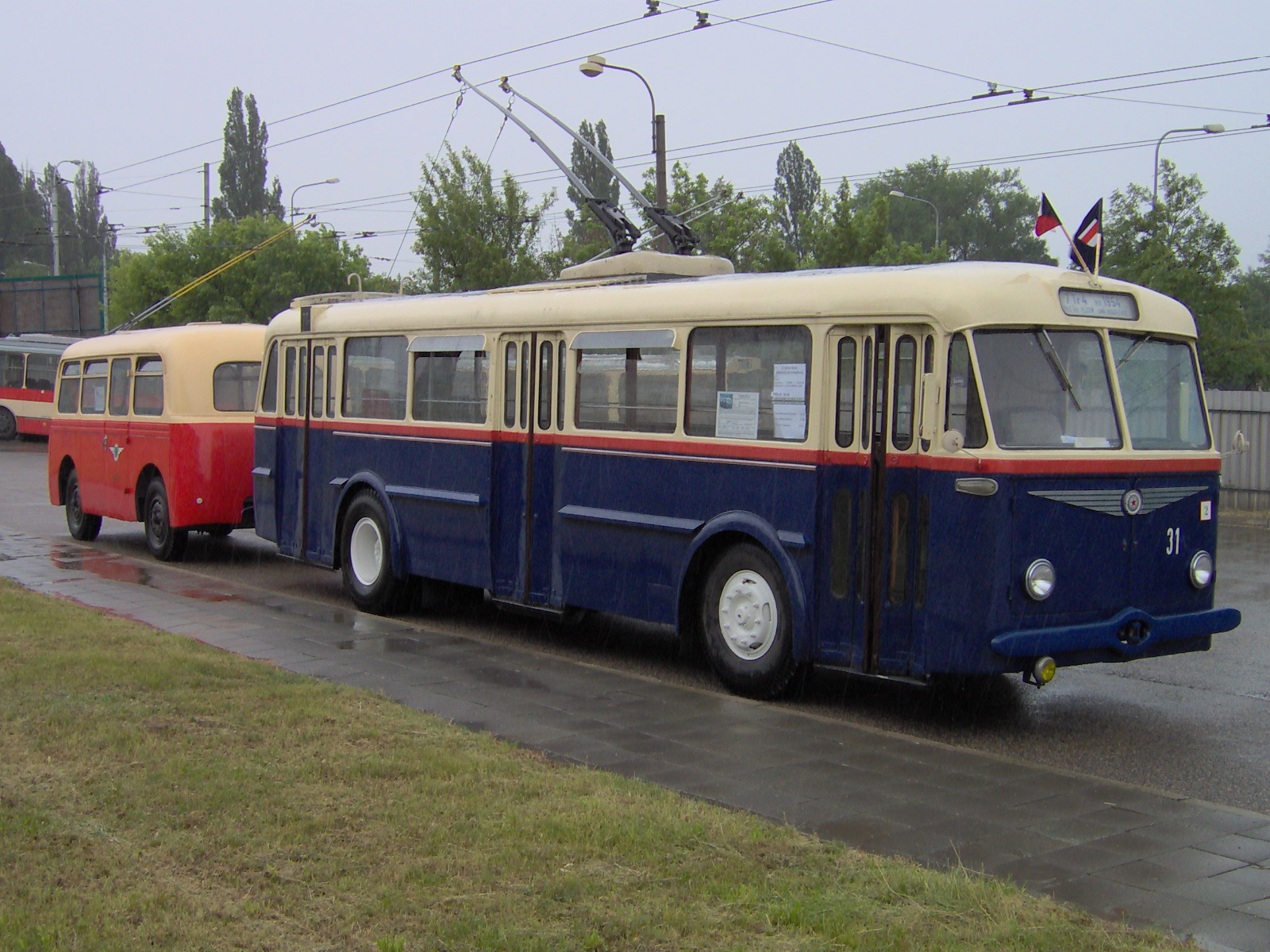 Historical Škoda 7Tr trolleybus with trailer car Karosa B40 in Brno (now possessions of Technical museum Brno)